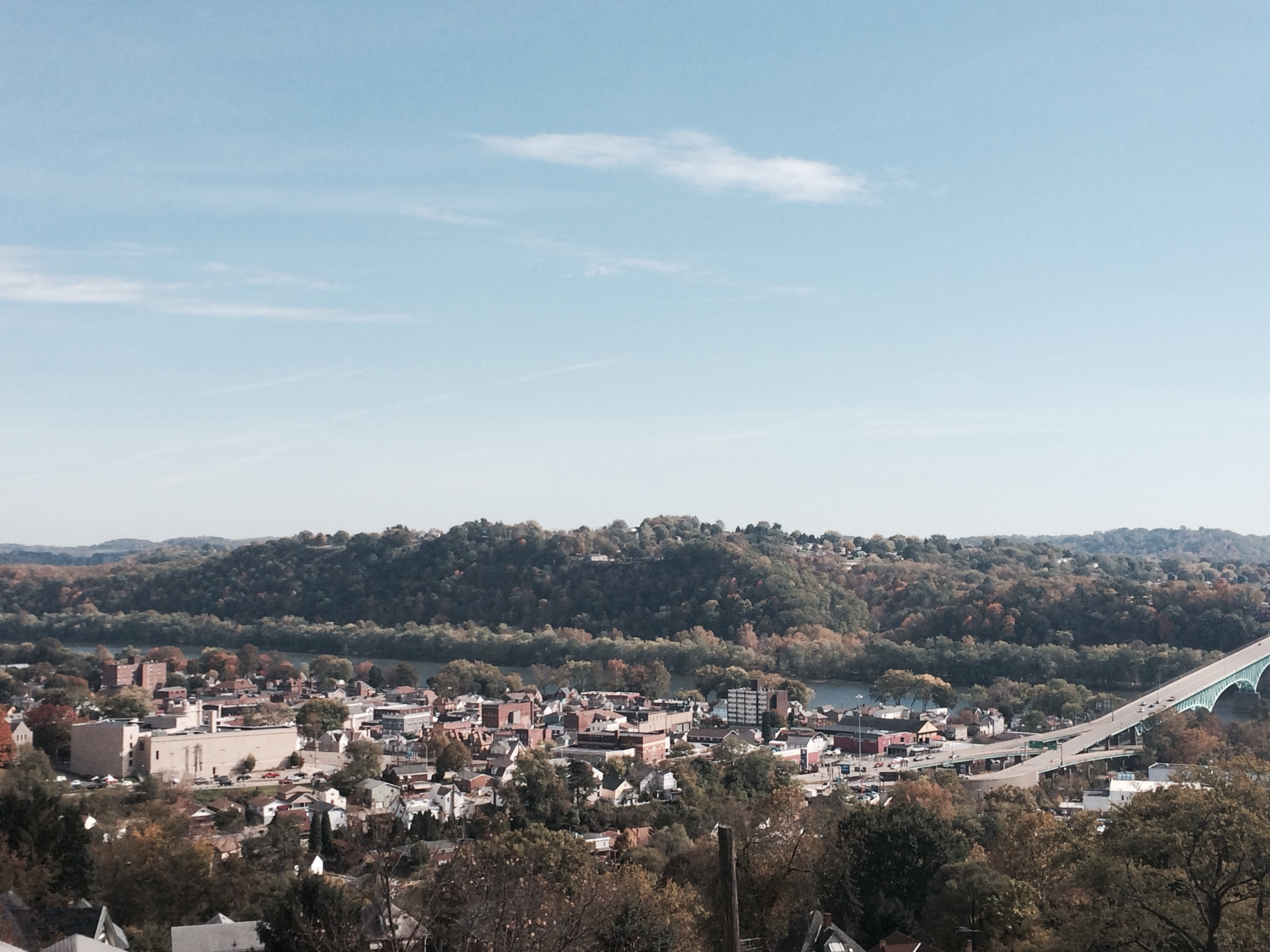 View of Tarentum Pa looking towards the Allegheny River and the George D. Stuart Bridge that leads to Lower Burrell PA